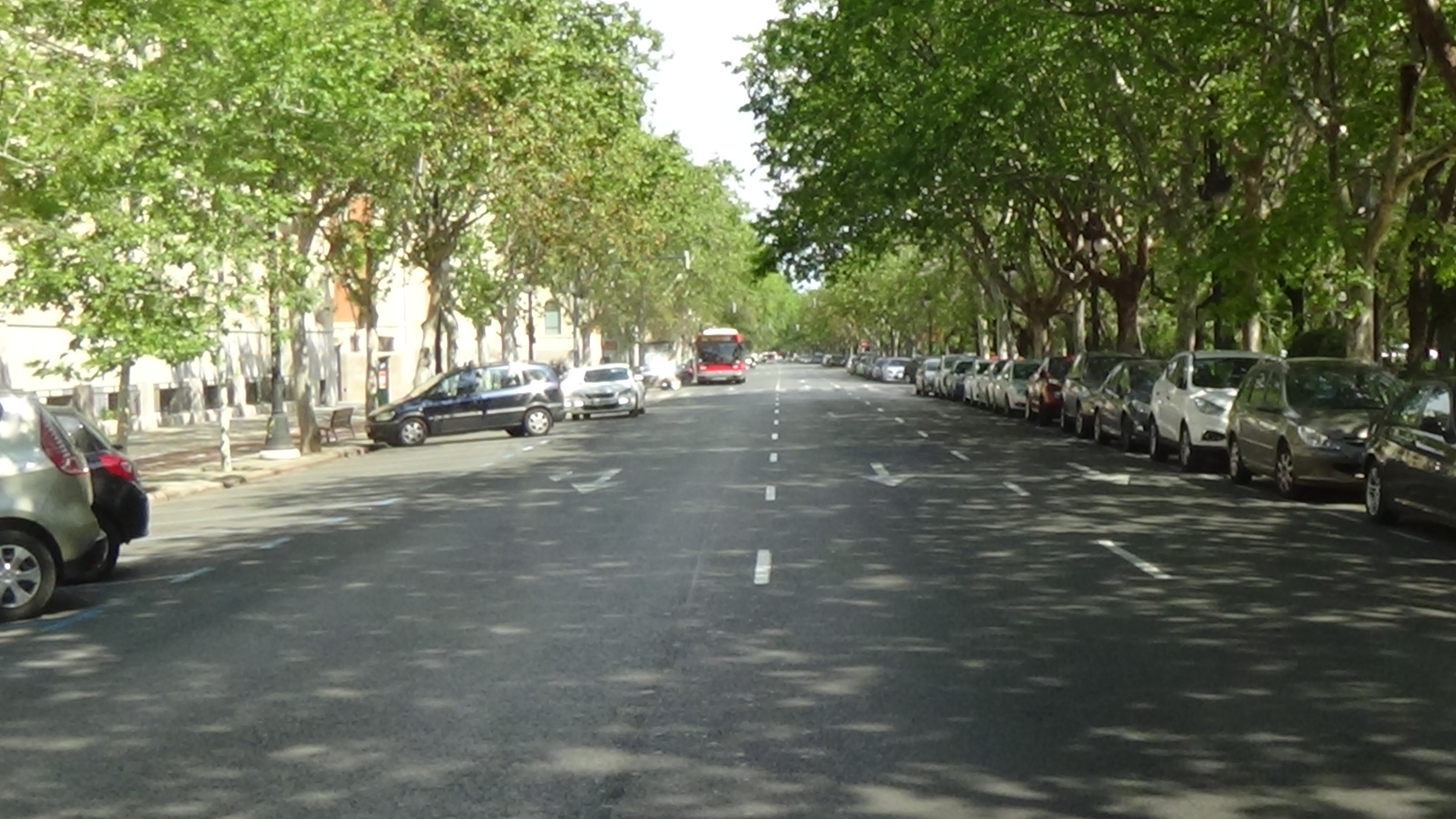 Avenida Blasco Ibáñez, Valencia